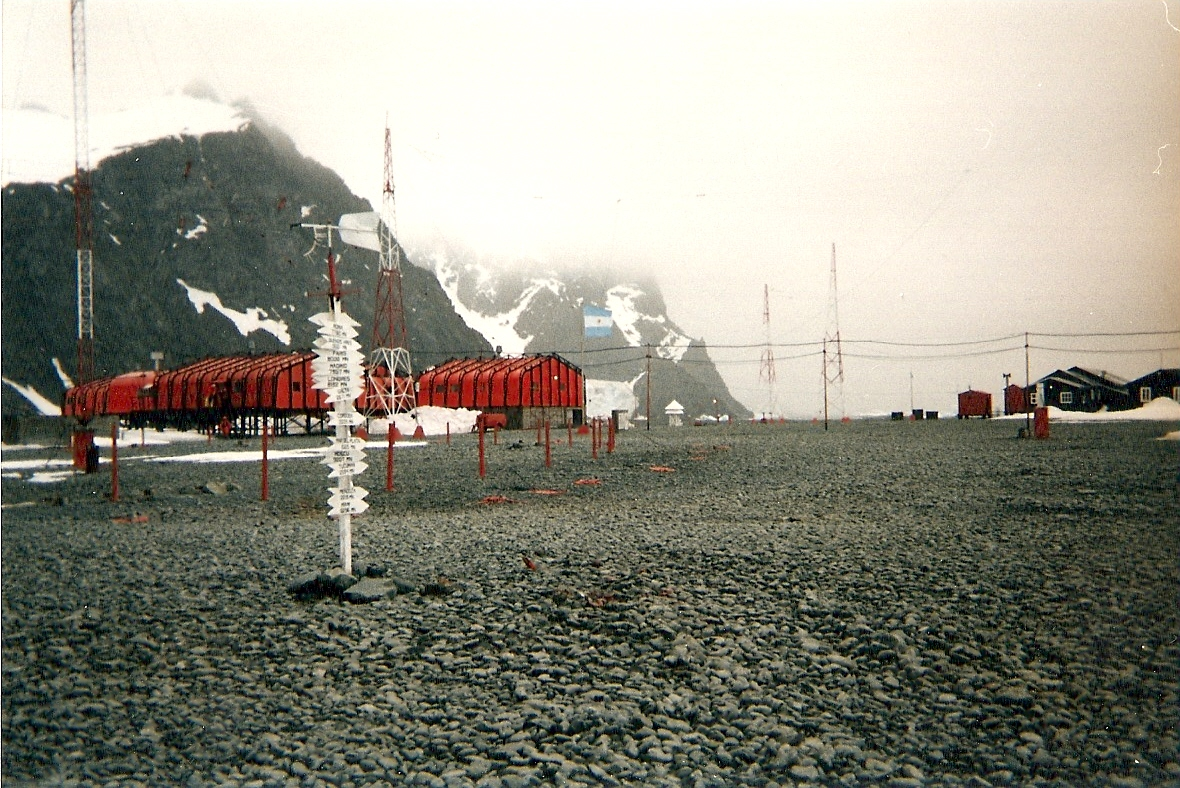 Orcadas Station on Laurie Island in the South Orkney Islands.